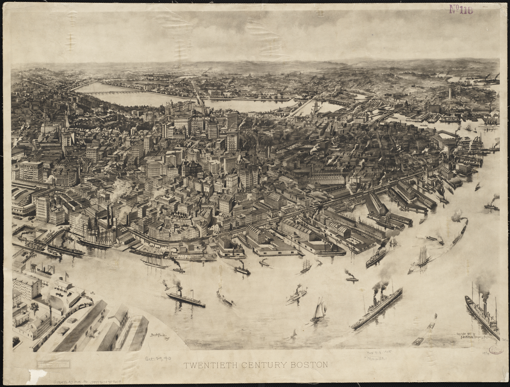 Zoom into this map at . Author: Poole, A. F. Publisher: F.D. Nichols Company Date: c1905. Location: Boston (Mass.) Scale: Not drawn to scale. Call Number: G3764.B6A3 1905.P6